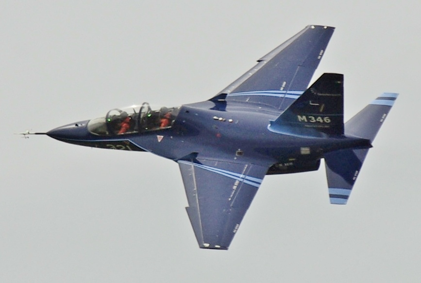 An Aermacchi M-346 in flight